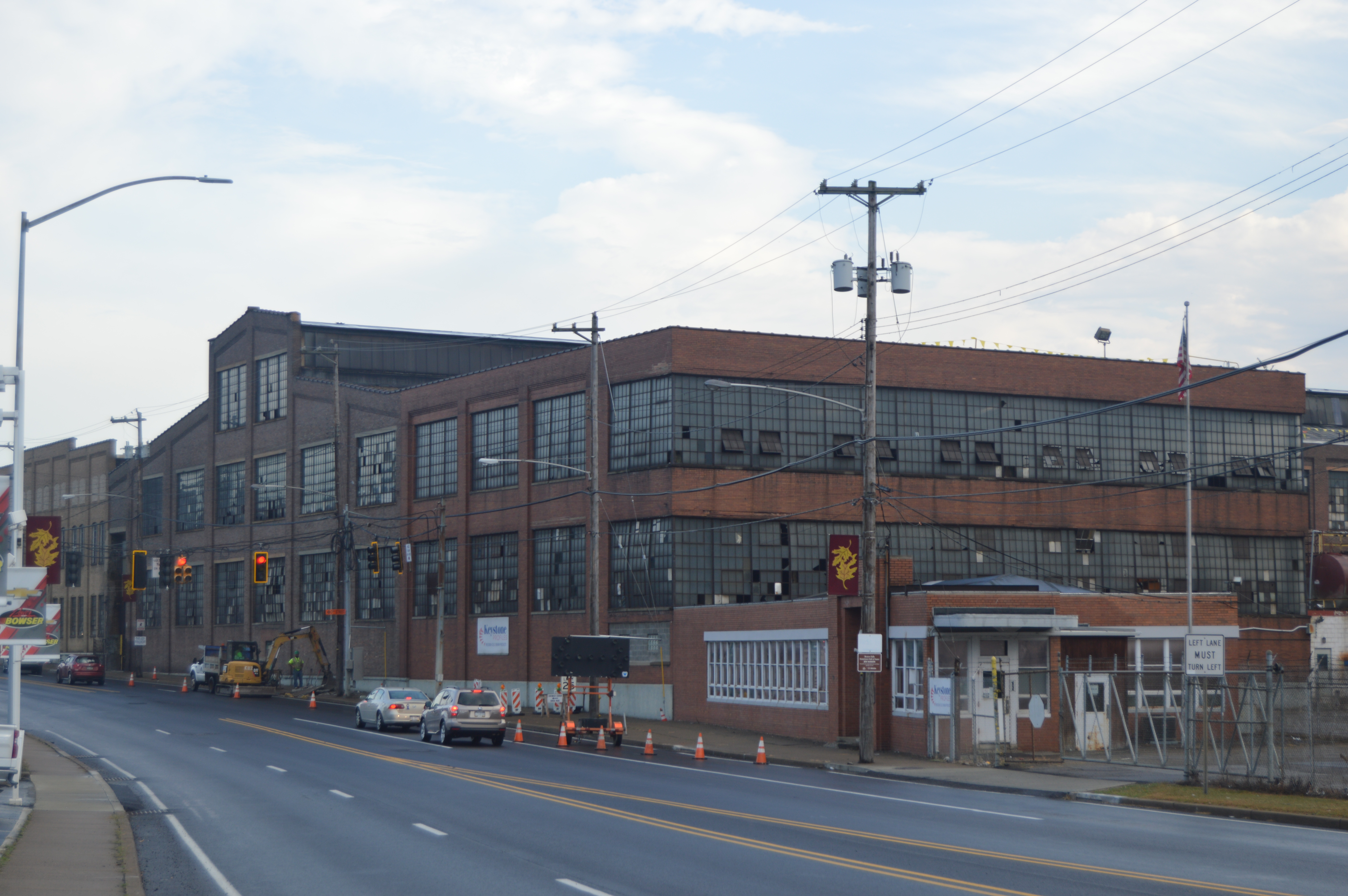 Industrial buildings at the Keystone Cold Drawn Products complex, located along Seventh Avenue (Pennsylvania Route 18) at Third Street in Beaver Falls, Pennsylvania, United States.